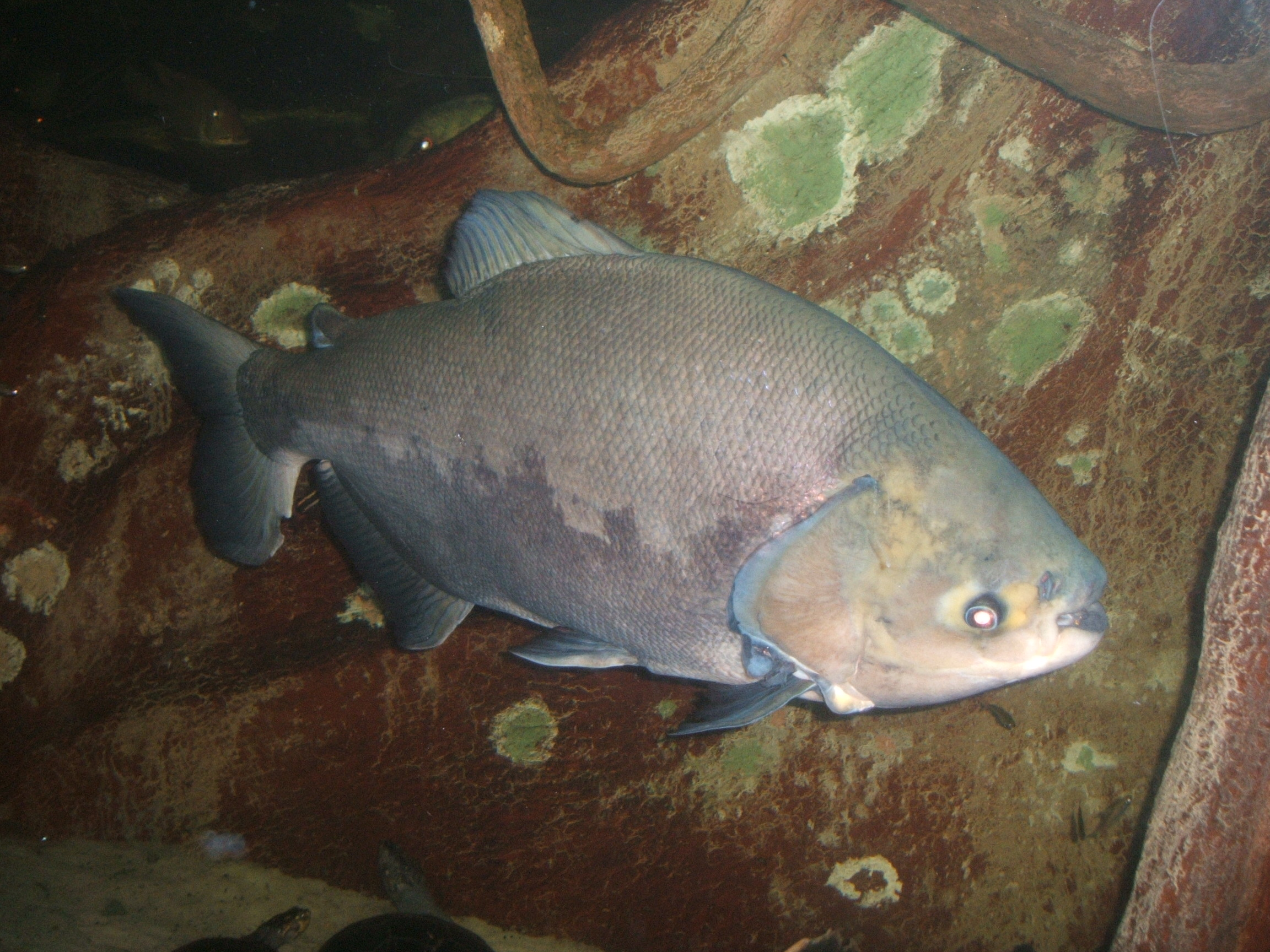 Colossoma brachypomus (silver pacu). Taken at the New England Aquarium (Boston, MA), December 2006. Copyright © 2006 Steven G. Johnson and donated to Wikipedia under GFDL and CC-by-SA.